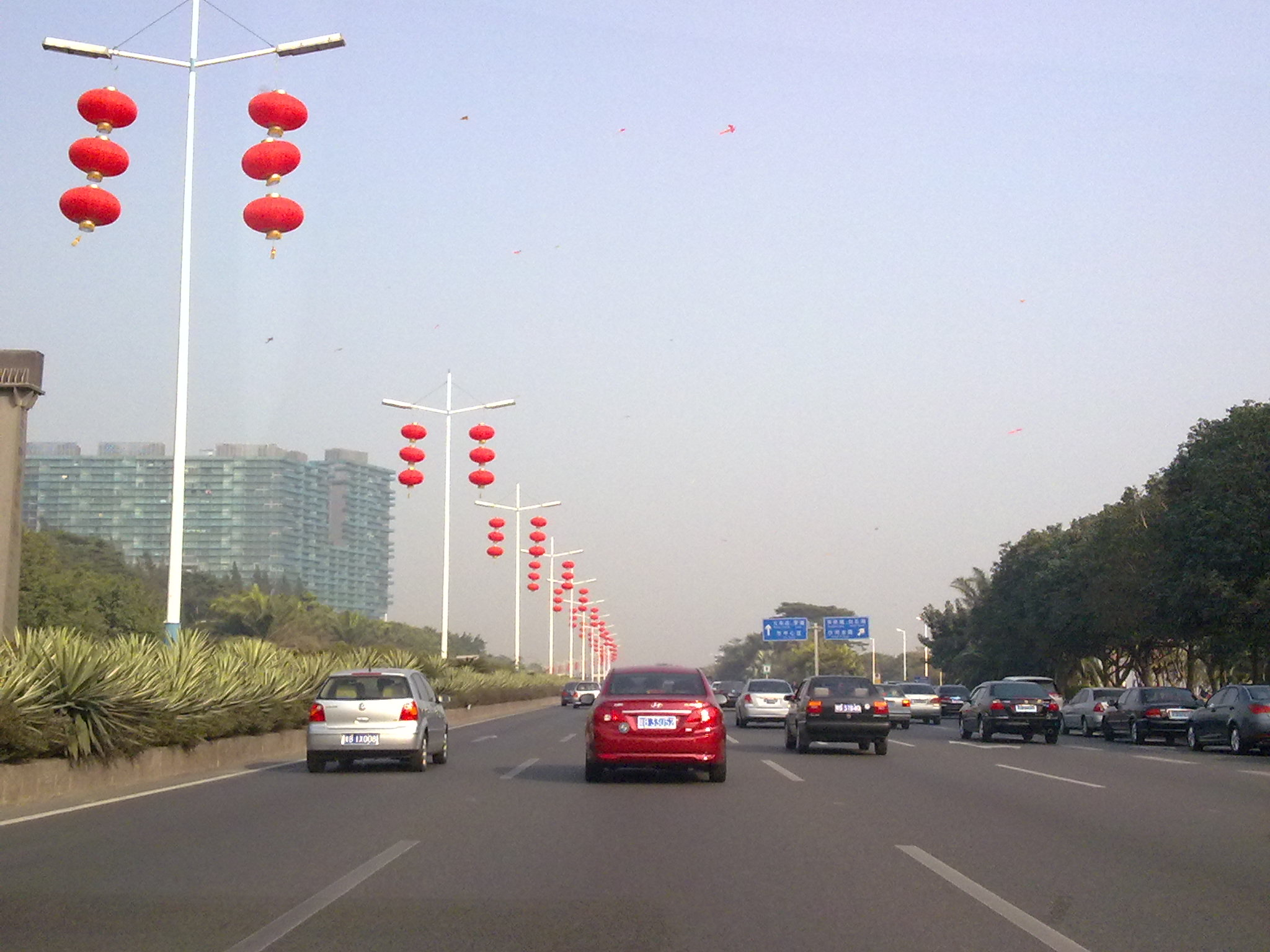 Bin Hai Blvd